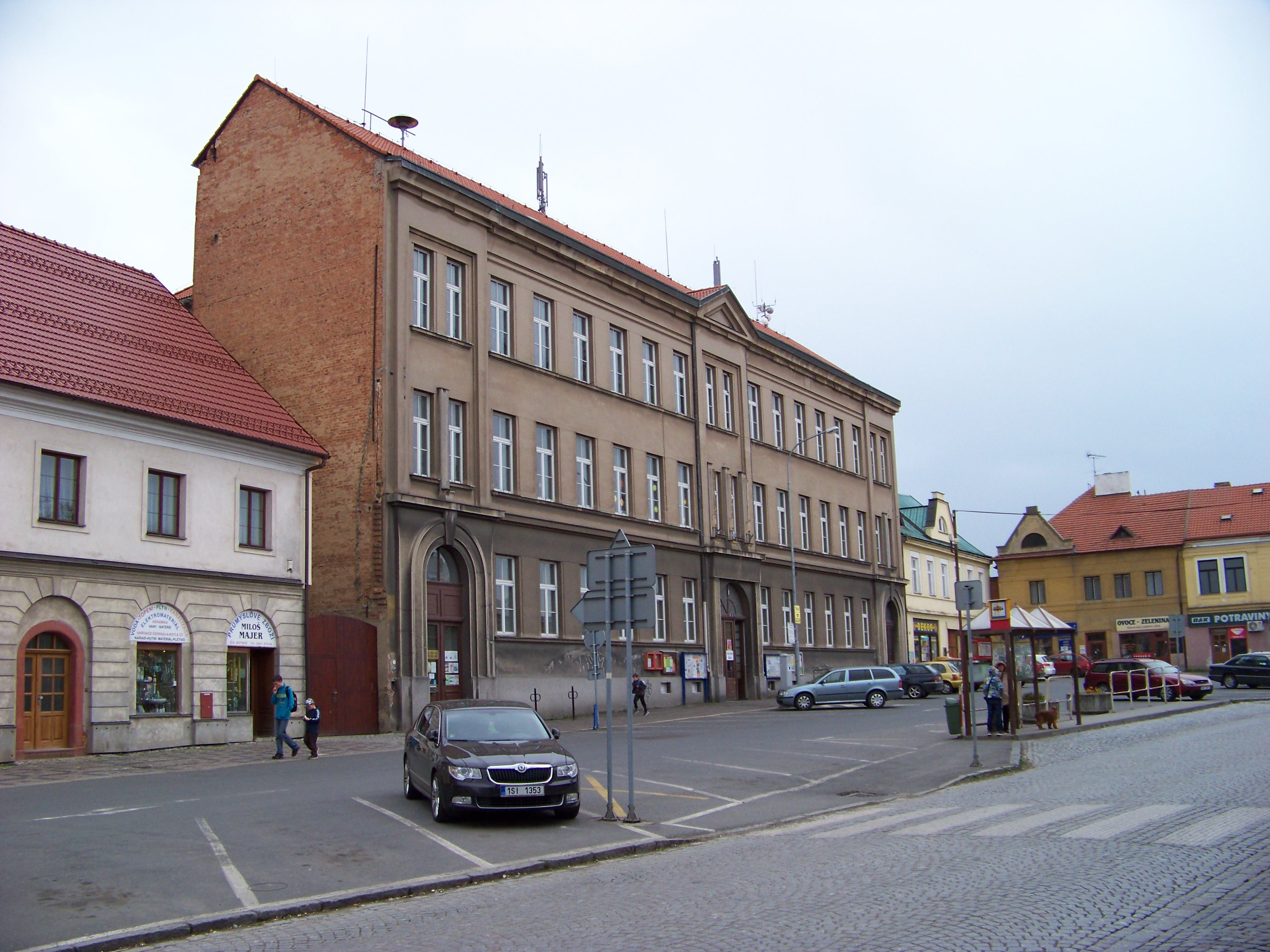 Kostelec nad Černými lesy, Prague-East District, Central Bohemian Region, Czech Republic. Náměstí Smiřických 33, a school.